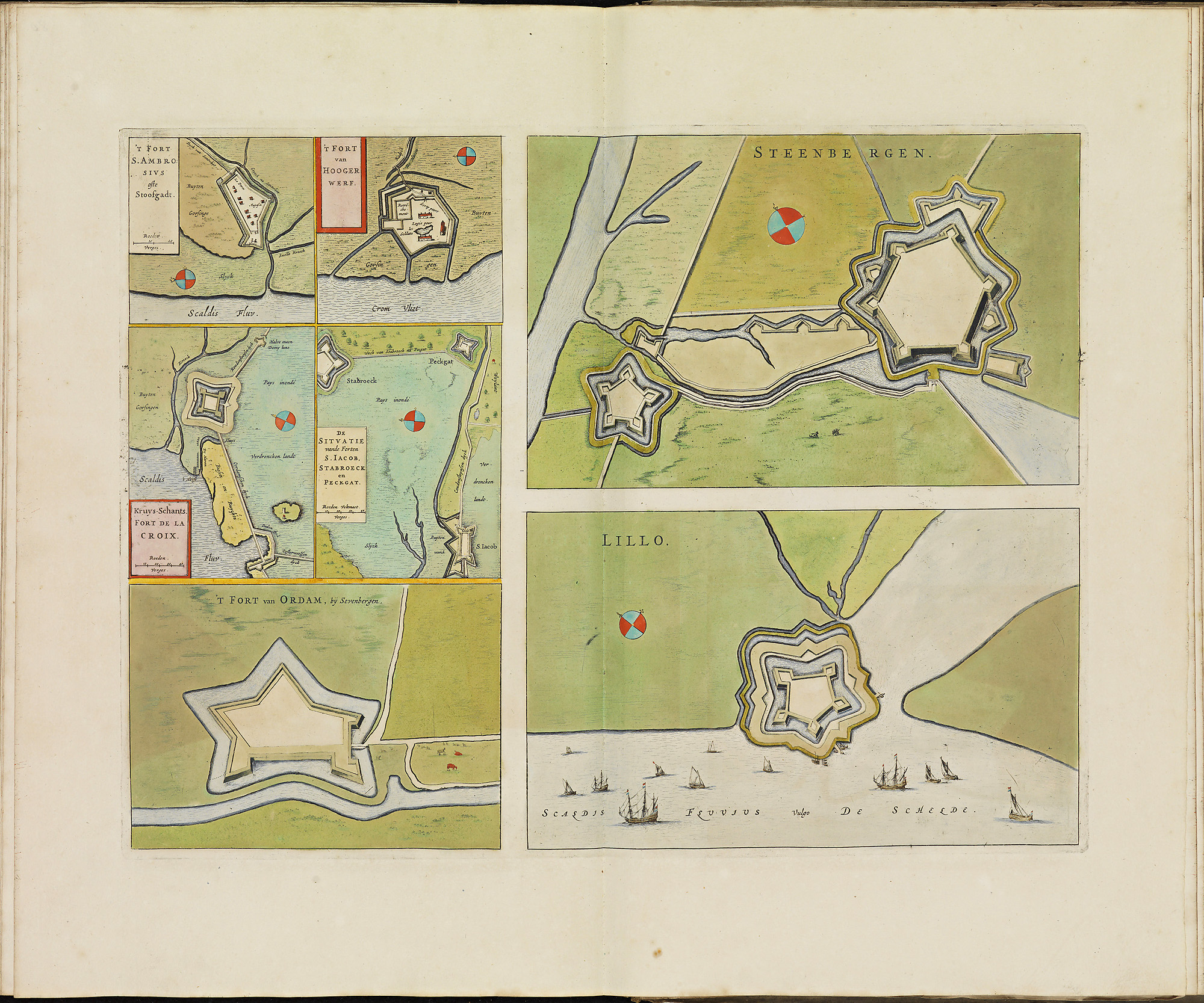 Plate 'pl080'('t Fort van Ordam) from the Stedenboek (citybook) by Frederick de Wit.